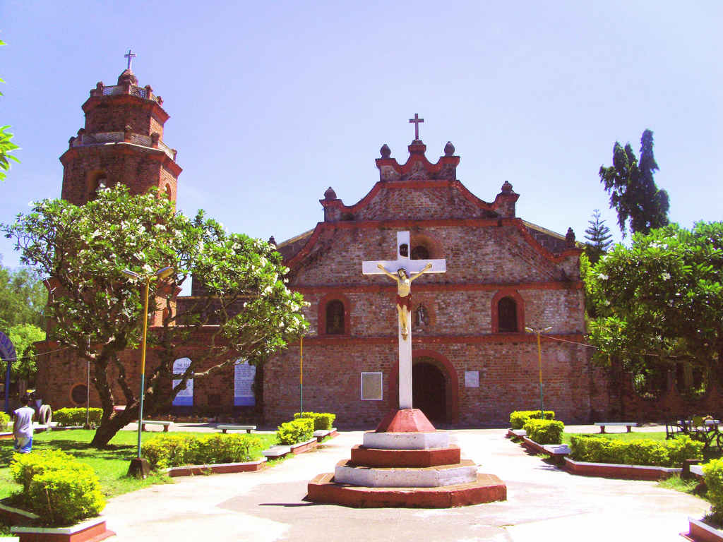 Bayombong Cathedral